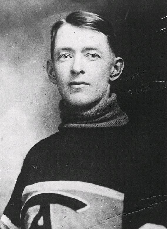 Georges Vézina, goaltender of the Montreal Canadiens of the NHA and NHL from 1910 to 1925. Photo from 1916.